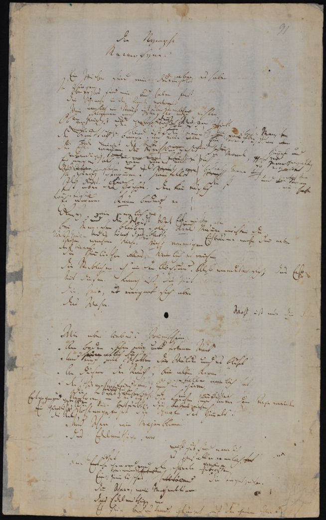 Page 91 of "Homburger Folioheft"